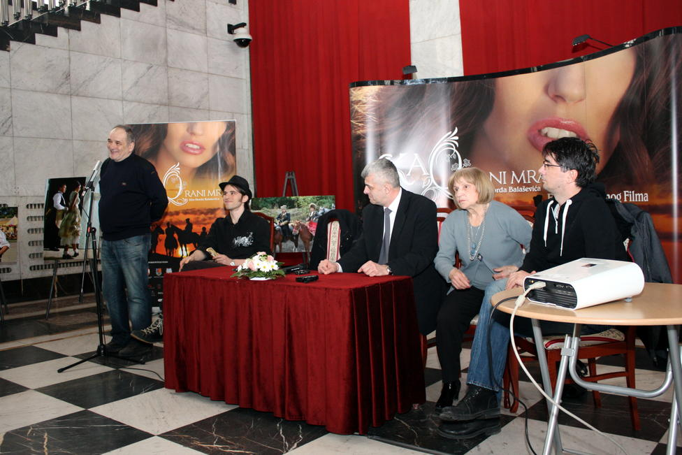 Kao rani mraz